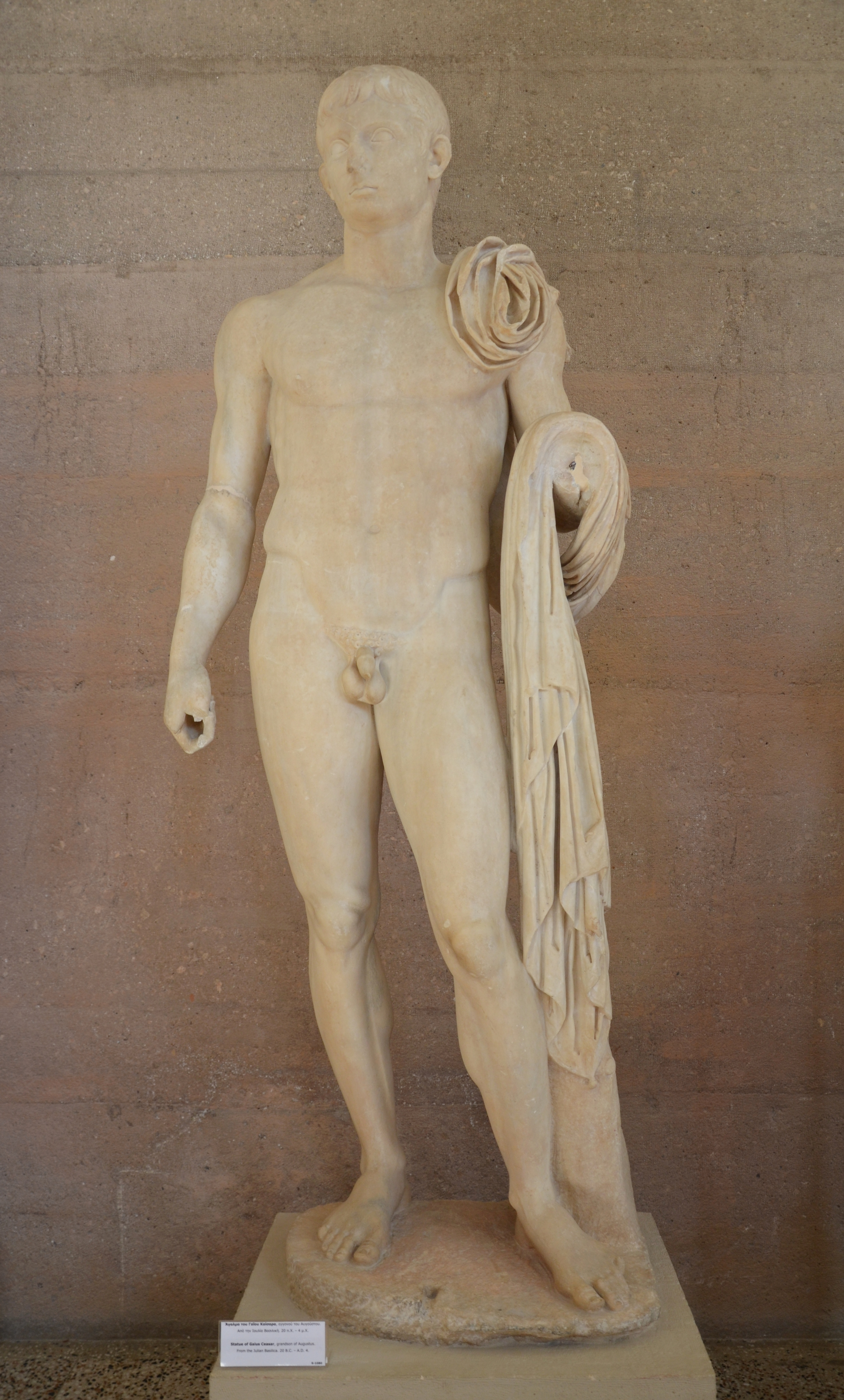 Statue of Gaius Caesar, grandson of Augustus, from the Julian Basilica, 20 BC – 4 AD, Archaeological Museum of Ancient Corinth, Greece